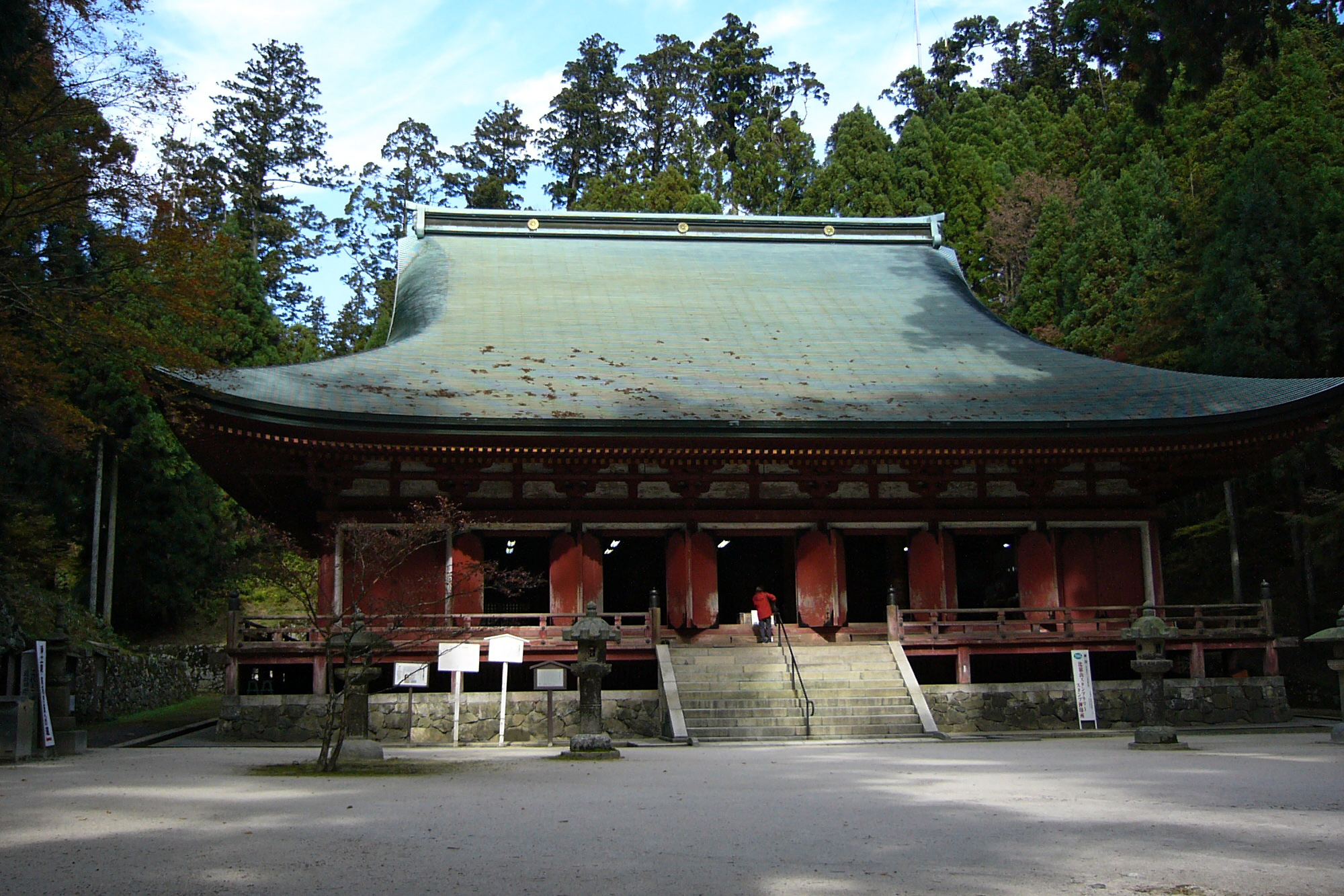 Enryaku-ji_Tenhorindo (転法輪堂), Otsu, Shiga prefecture, Japan